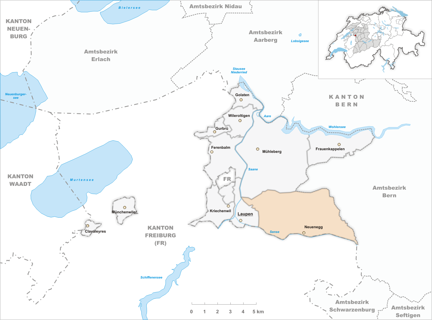 Municipality Neuenegg